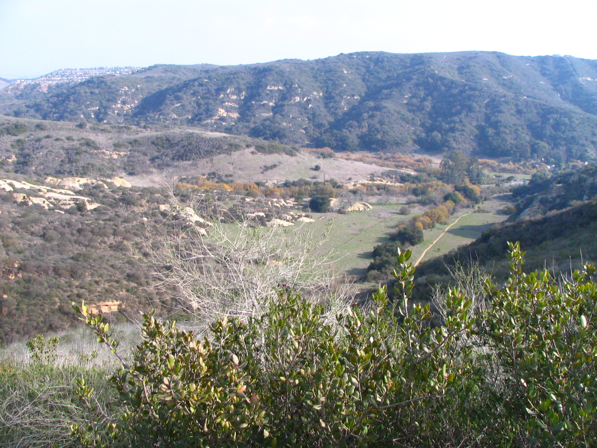 The lower Camarillo Canyon, a branch of Laguna Canyon, taken from the ridge above California State Route 73.